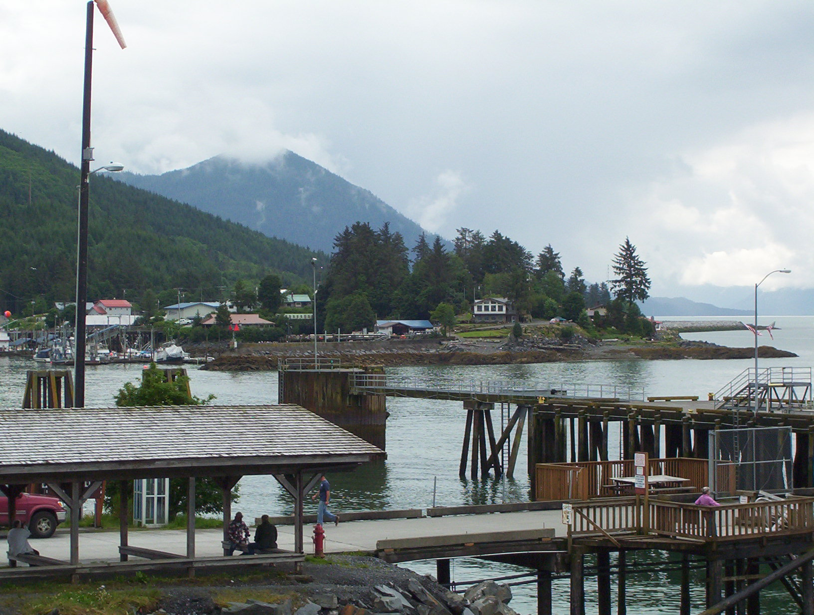 My own photograph (Sarah Hurst/BeringStrait)